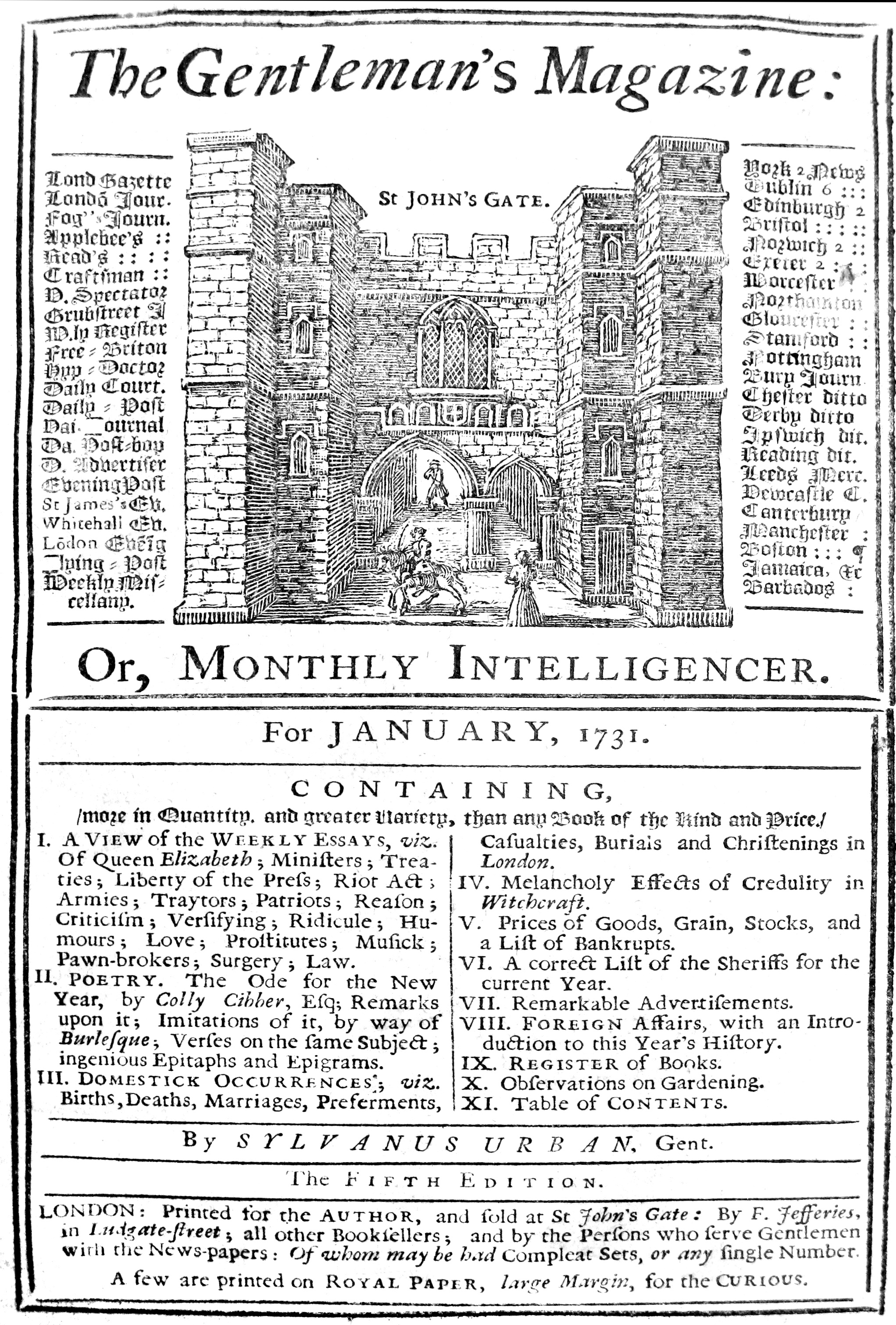 Image of the title page of the first issue of the Gentleman's Magazine. Page was photographed by the uploader, and is not from the Bodleian Library's ILEJ website.